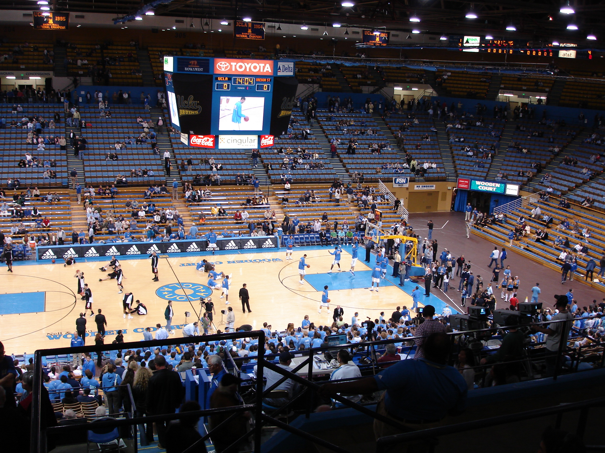 A Basketball game at Pauley Pavilion (Taken 2/23/06 by Mike Downey) (who is the same as Leahcim506, the uploader of the picture, [1]) The original picture was Image:Pauleypavilion.jpg, copied to commons by Oleg Alexandrov 01:24, 6 August 2007 (UTC).